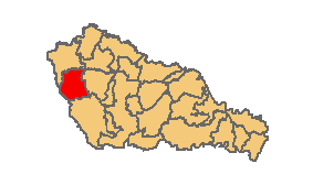 Location of municipality inside Međimurje County